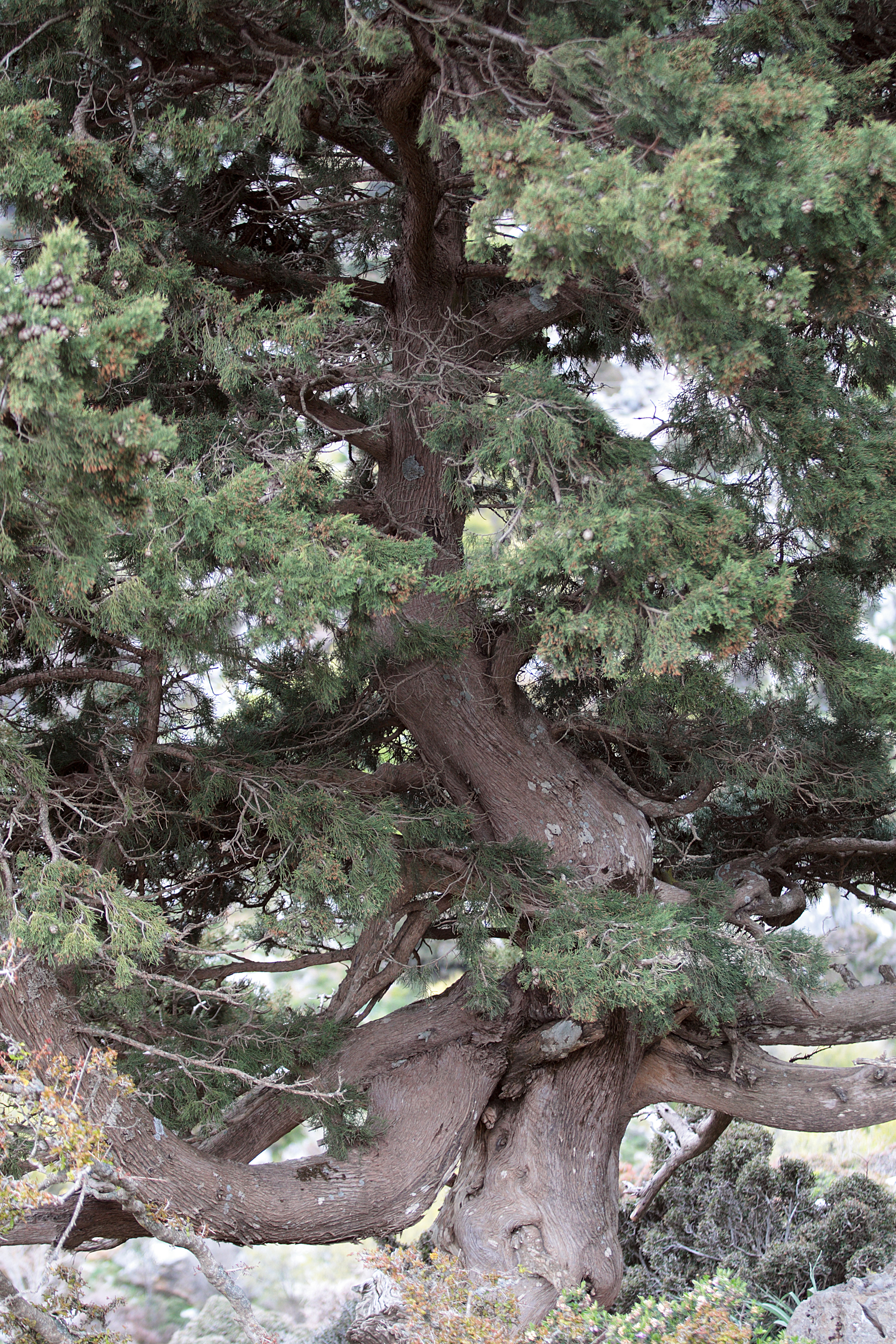 Cupressus sempervirens L., Omalos Plateau (Krete)